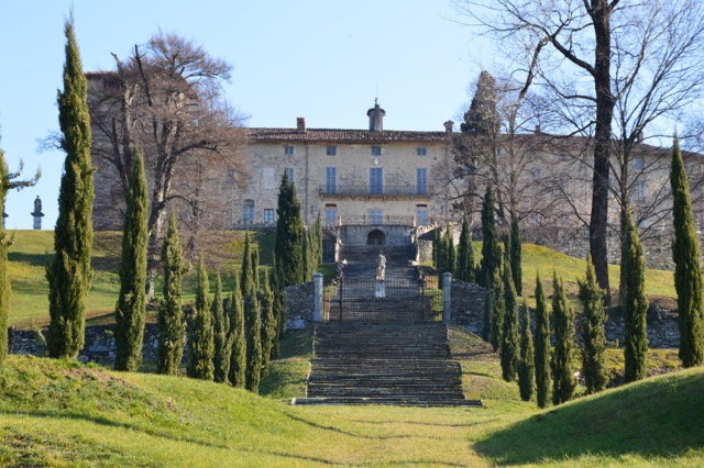 facade and staircase of Castello Durini